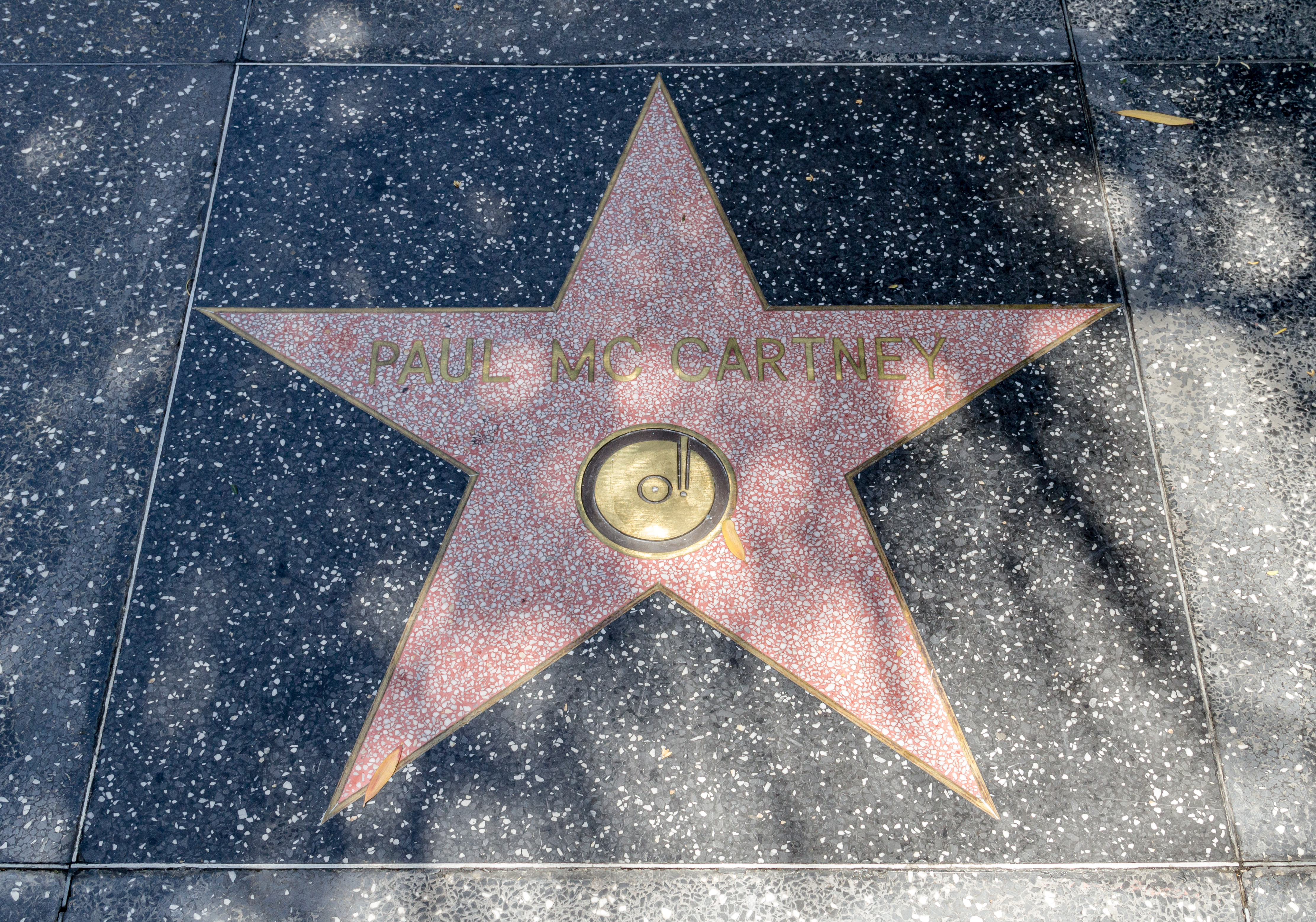 Star “Paul Mc Cartney” at the Hollywood Boulevard in Los Angeles, California, USA